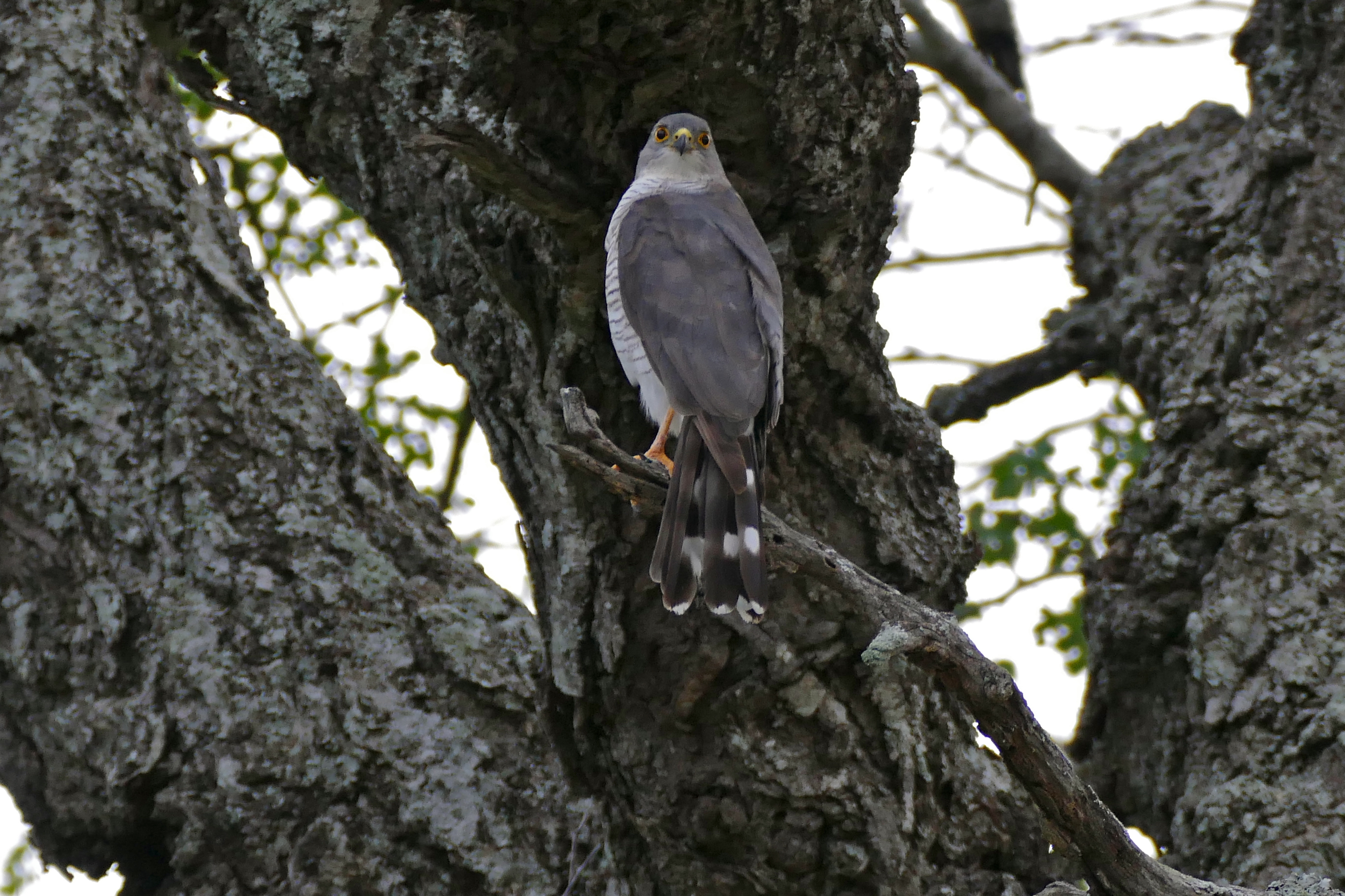 H7 Road East of Orpen, Kruger NP, SOUTH AFRICA